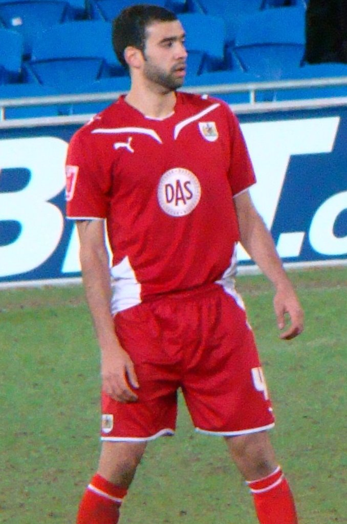 19/01/10 Cardiff City V Bristol City, FA Cup 3rd Round. Cardiff City Stadium, Cardiff, Wales